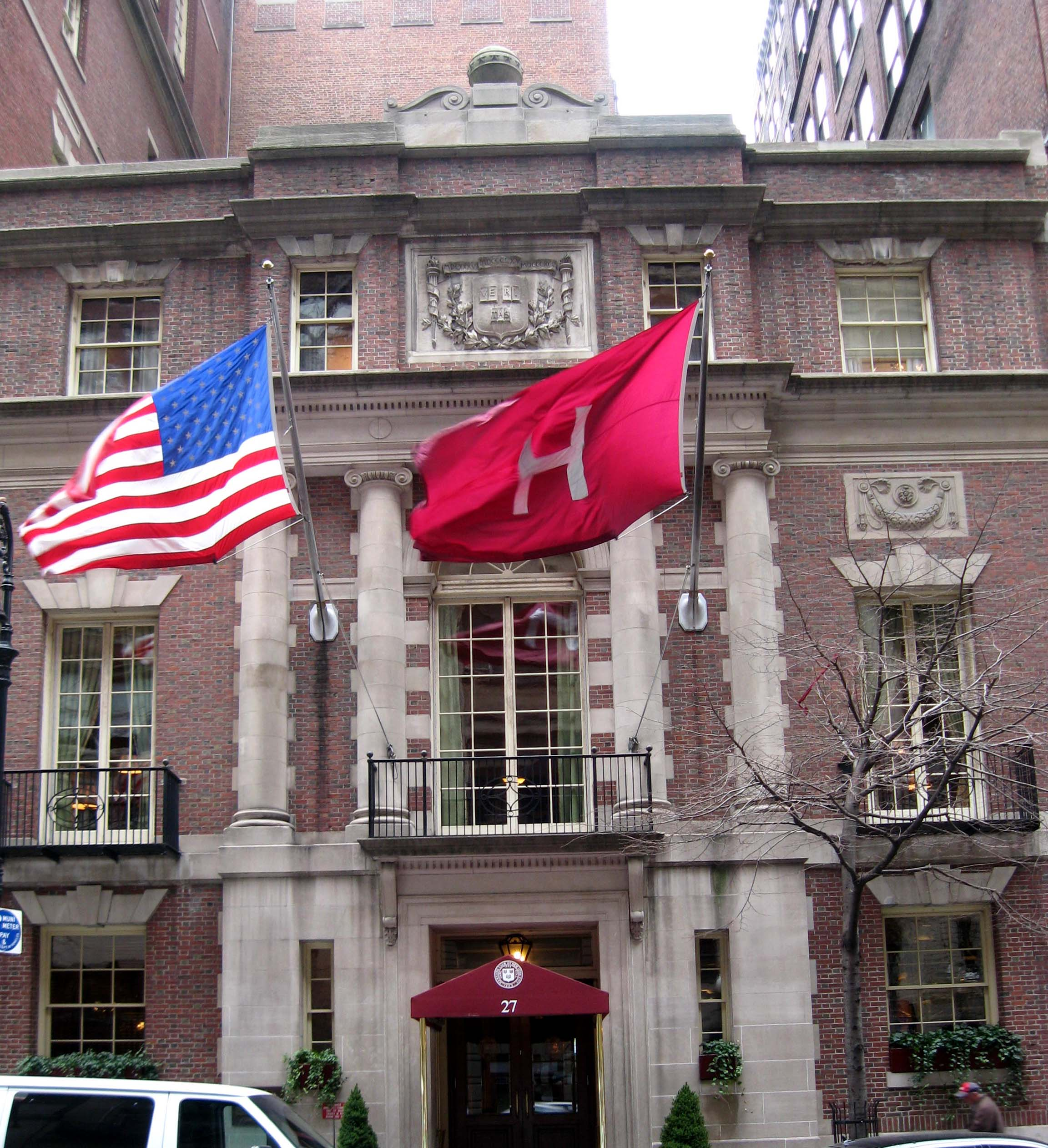 Harvard Club of New York on the north side of East 44th Street on a cloudy afternoon in midwinter.